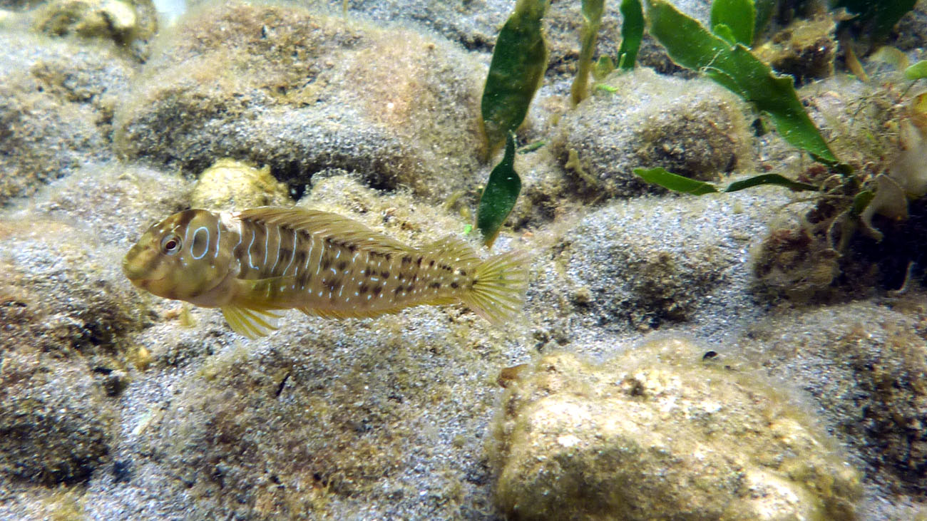 Salaria pavo in the Mar Menor in Cartagena (Spain)